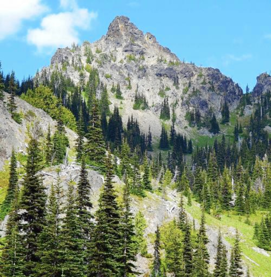 Three Way Peak is from upper Crystal Lake on June 14, 2015. The camera is pointed roughly east, so this shows the Mount Rainier National Park side of the peak.